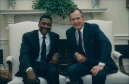 PRESIDENT BUSH MEETS WITH ROBERT L. JOHNSON, PRESIDENT, BLACK ENTERTAINMENT TELEVISION, AND HIS FAMILY. JOHNSON PRESENTS THE PRESIDENT WITH A BLACK JACKET. JOHNSON HOLDS HIS SON WHO IS ASLEEP IN HIS ARMS.